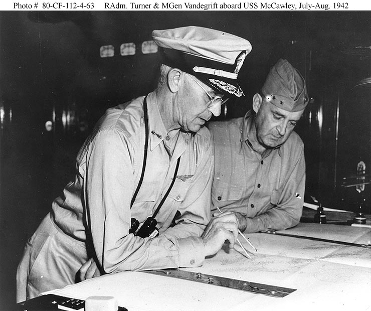 Enroute to Guadalcanal, RAdm Richmond Kelly Turner, commander of the Amphibious Force, and MajGen Alexander A. Vandegrift, 1st Marine Division commander, review the Operation Watchtower plan for landings in the Solomon Islands.